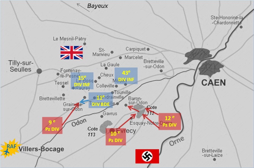 Operation Epsom main movements on 1944, June 30